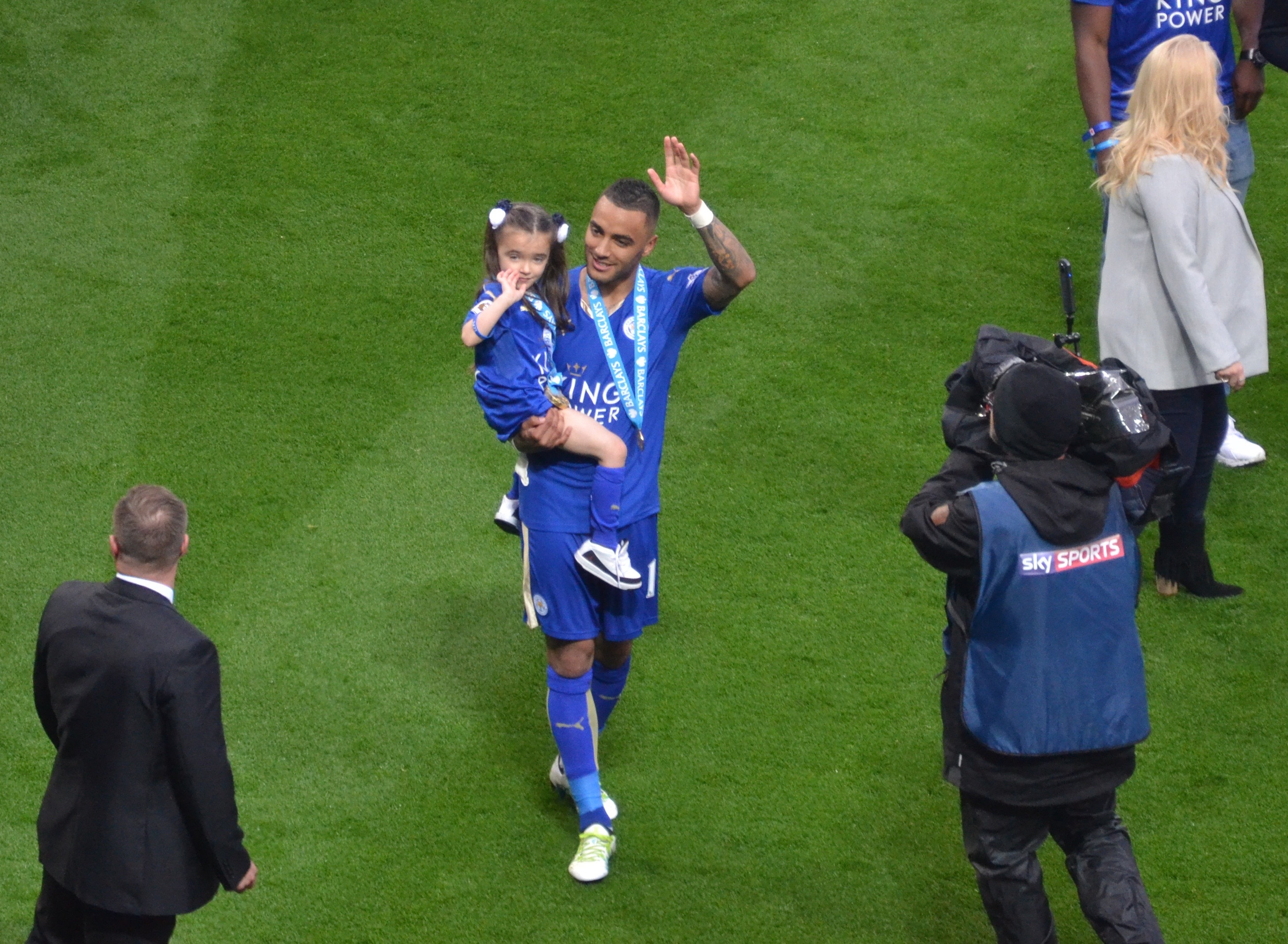 Danny Simpson and daughter celebrate LCFC title at King Power